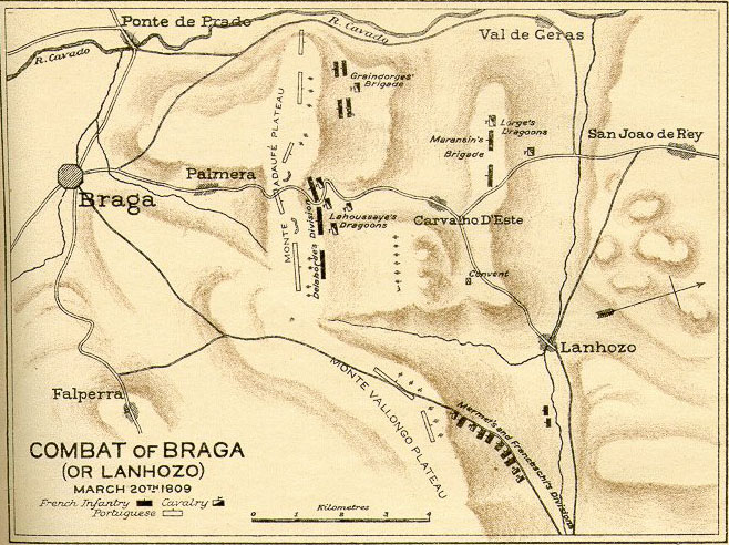 Map of the battle between Portuguese and Napoleonic troops in Braga, Portugal.